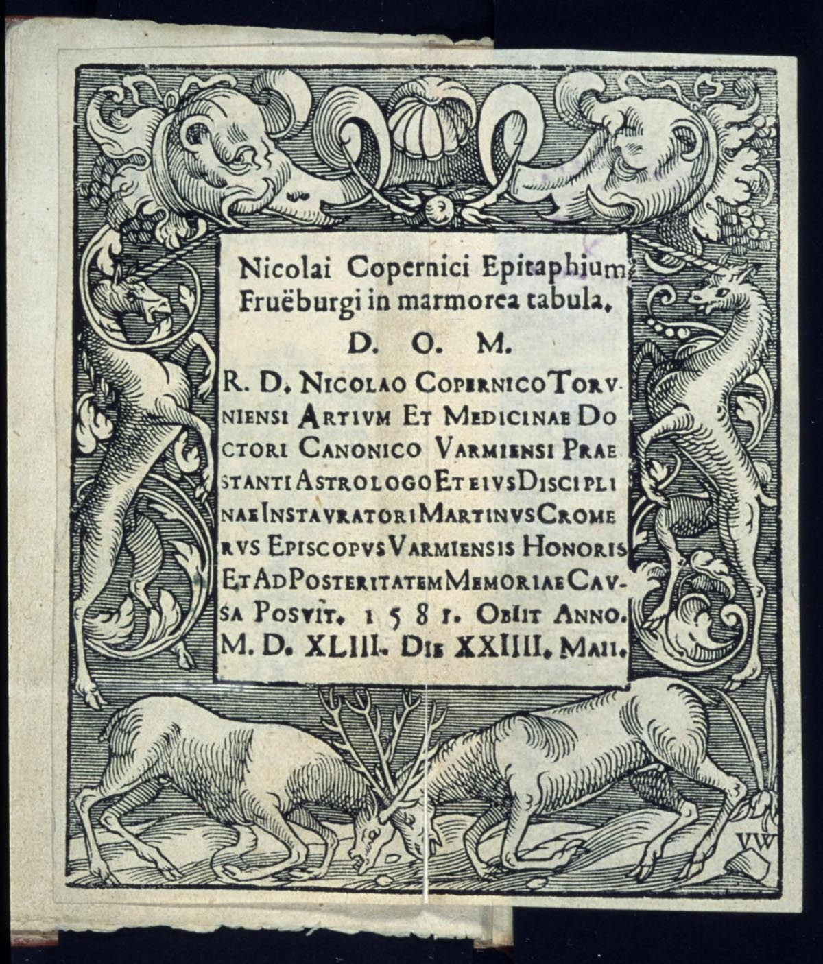 Text of the original epitaph for Nicolaus Copernicus that had been erected in 1581 in the cathedral of Frauenburg (Frombork) by bishop Martin Cromer (1512-1589). The original in the cathedral has vanished in 17th century wars. In 1735, a new epitaph was added, see File:Nicolaus Copernicus epitaph.PNG